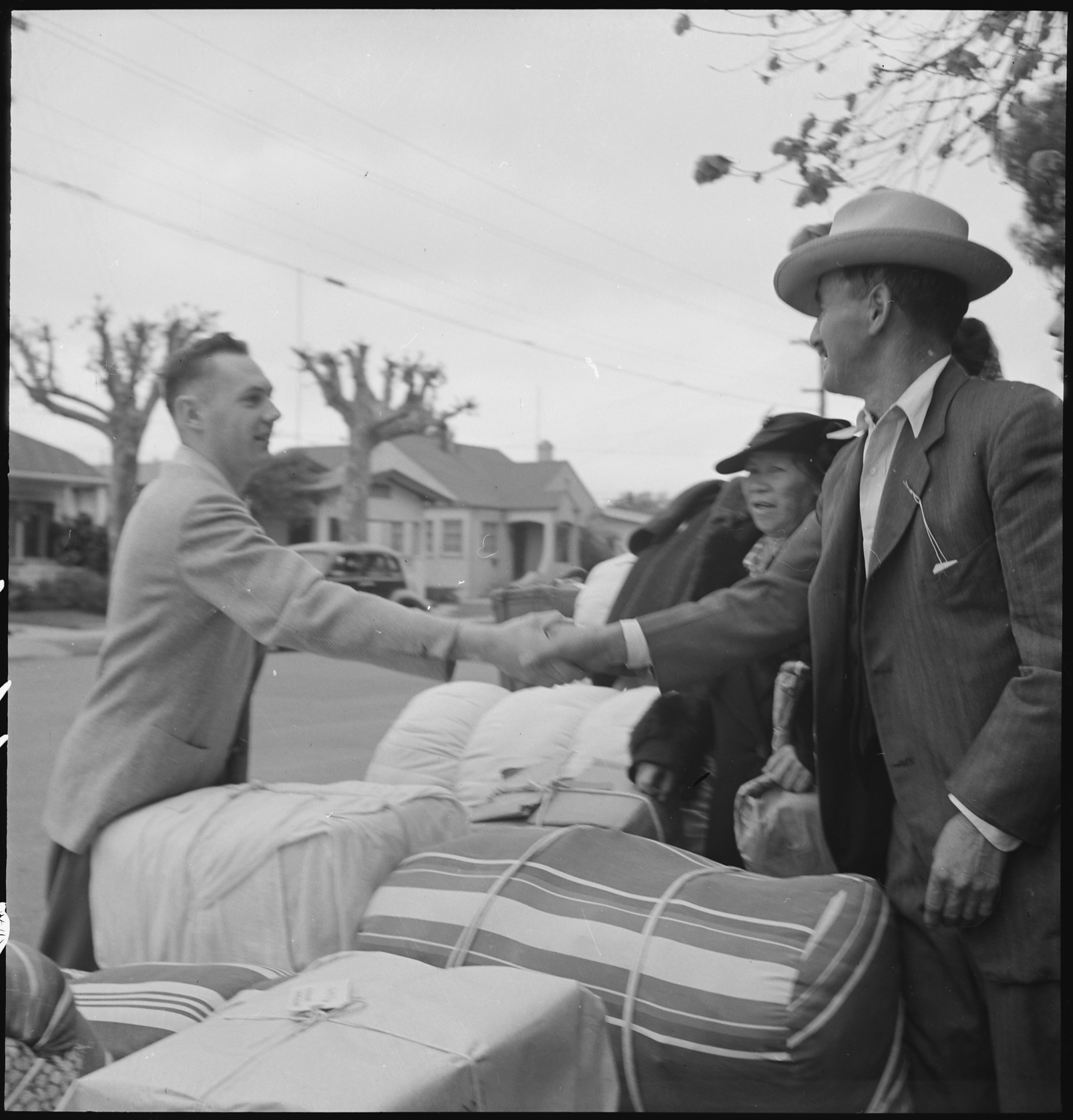 Scope and content: The full caption for this photograph reads: Hayward, California. Friends say good-bye as a family of Japanese ancestry await evacuation bus. Baggage of evacuees, mostly from small farms in Alameda County, was piled on sidewalk. Evacuees will be housed in War Relocation Authority centers for the duration.